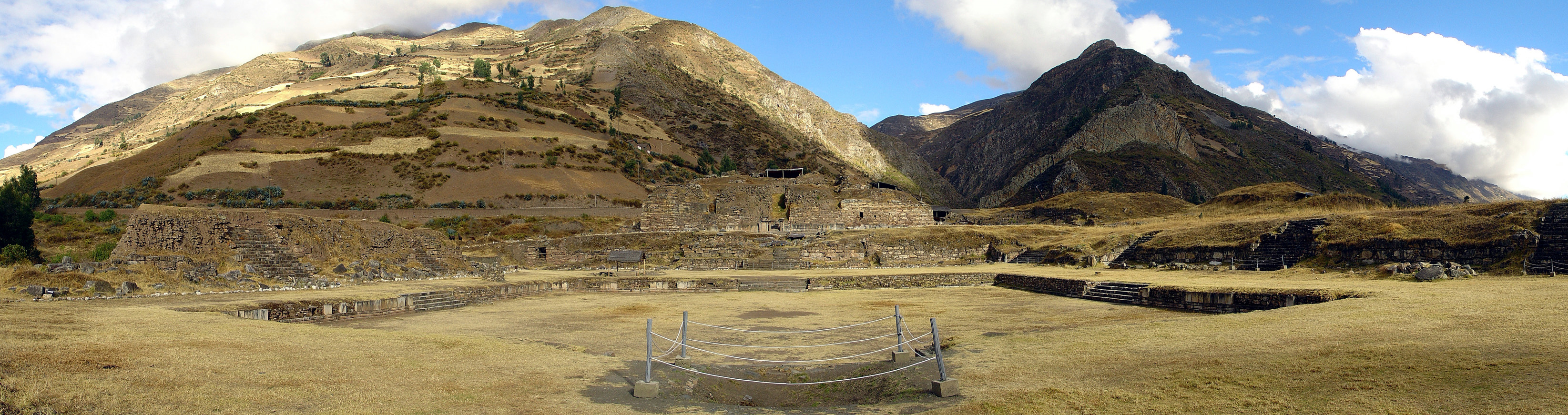 Central plaza in Chavin de Huantar, Peru